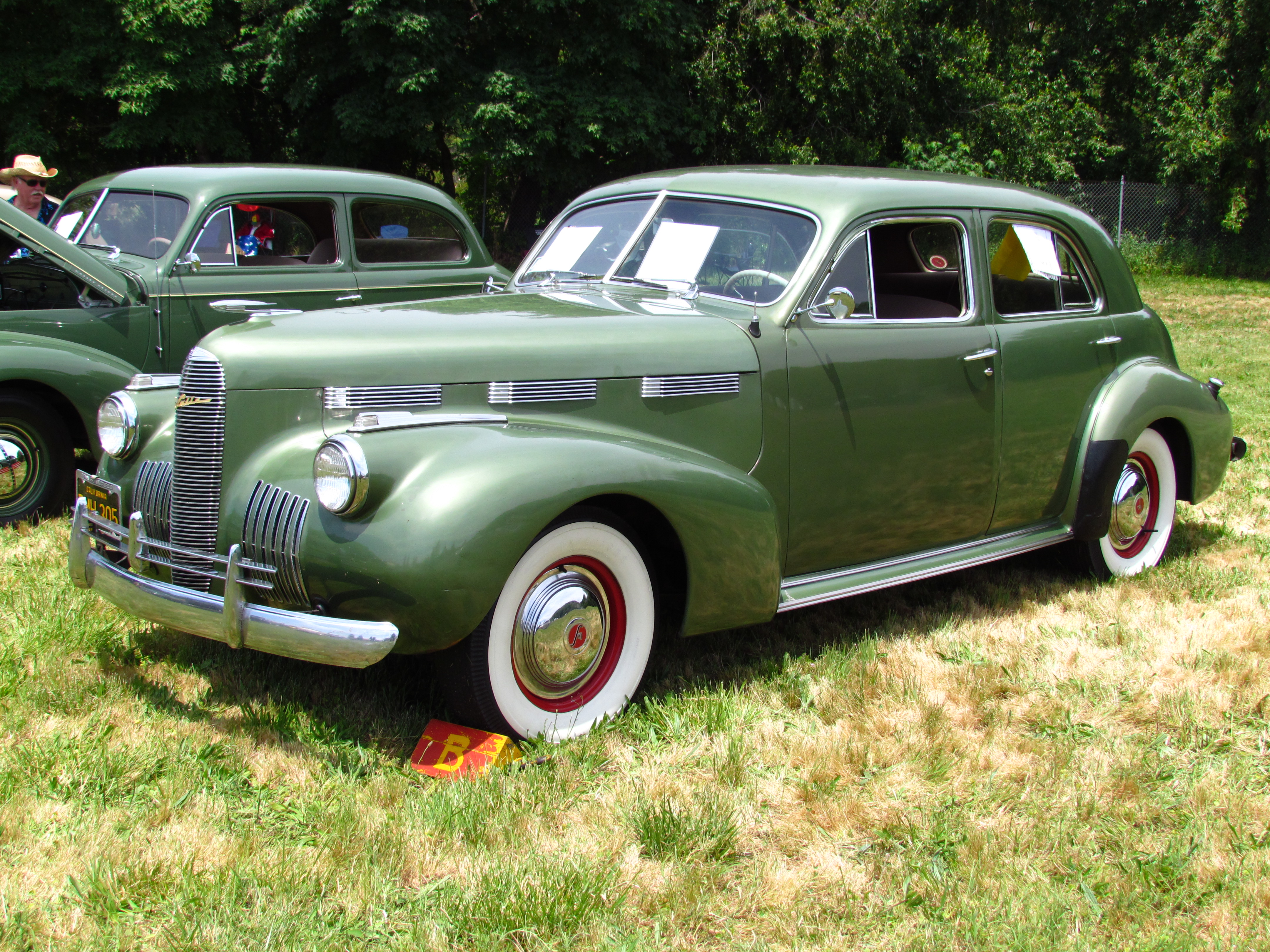 LaSalle 1940 Series 52 Special Sedan